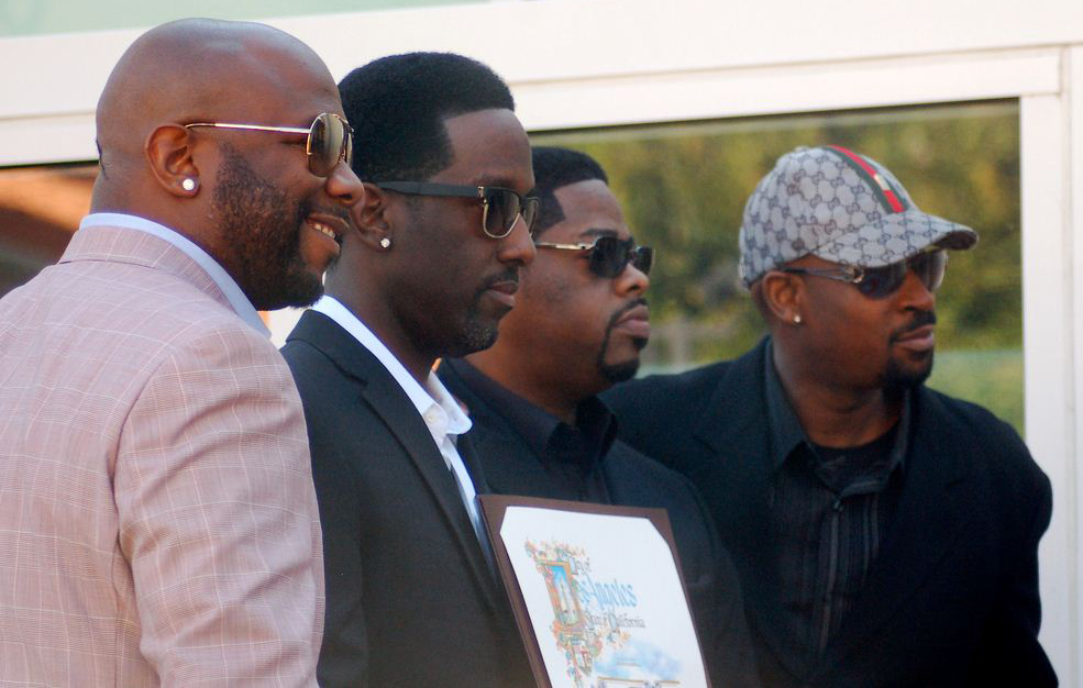 Wanya Morris, Shawn Stockman, Nathan Morris, and Michael McCary at a ceremony for Boyz II Men to receive a star on the Hollywood Walk of Fame.